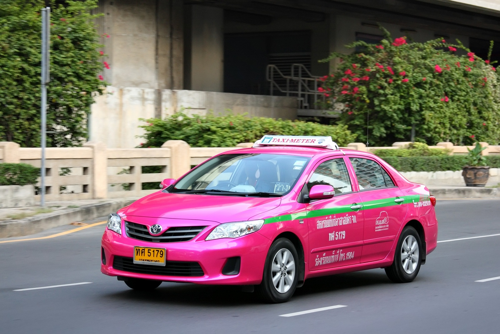 Taxi-meter in Bangkok (Toyota Corolla)